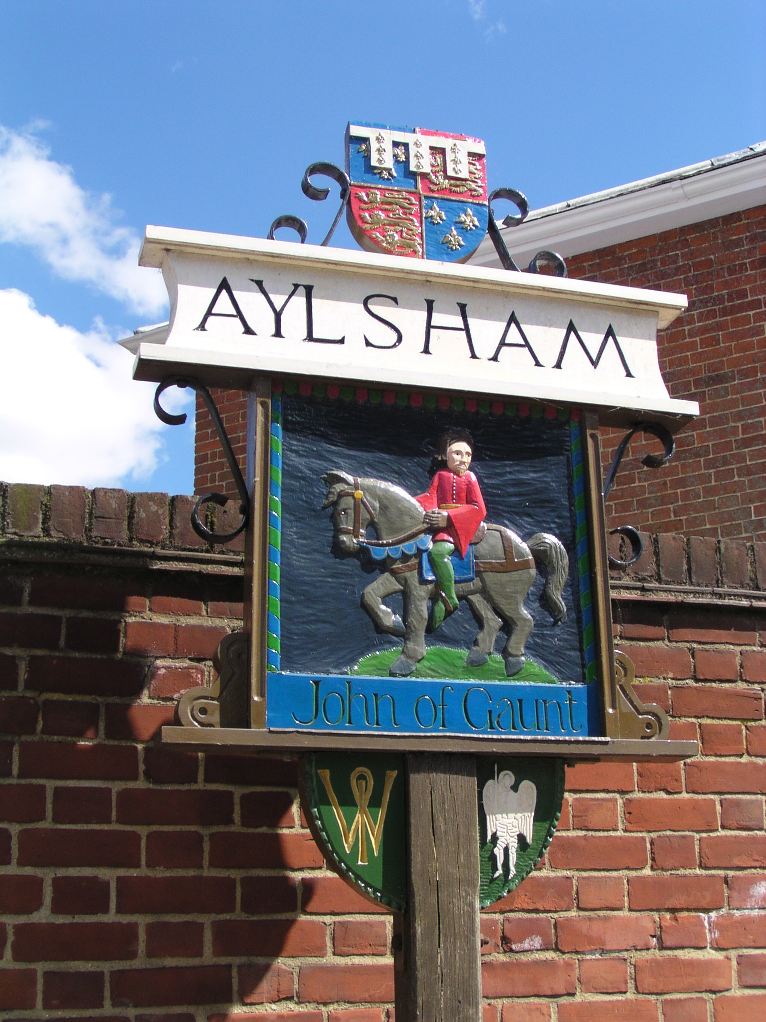 Aylsham Town Sign, photograph by Bruce Porteous, June 2004 Aylsham article